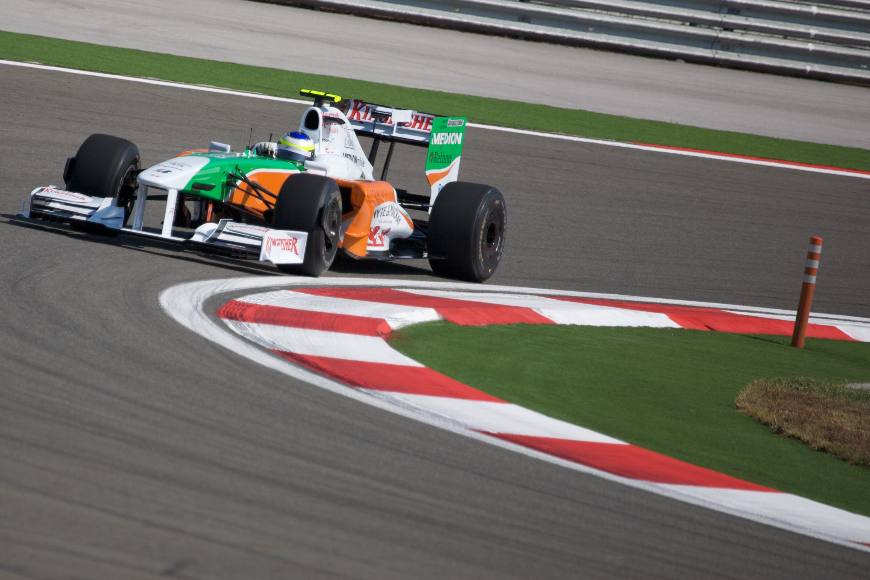 Giancarlo Fisichella driving for Force India at the 2009 Turkish Grand Prix.